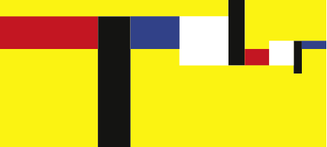 Schematic representation of Camille Graeser's Energie in der Reihe from 1952